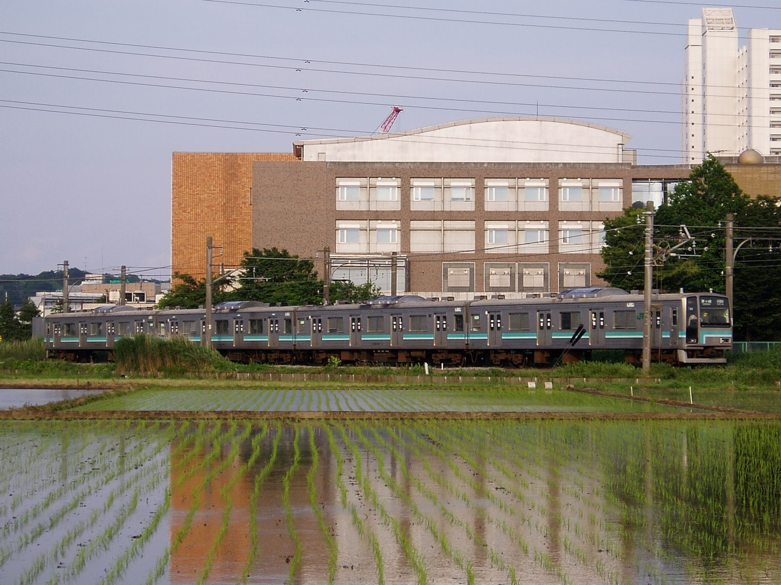 East Japan Railway Company, EMU Type 205 "Sagami Line" Between Ebina Sta. and Atsugi Sta.